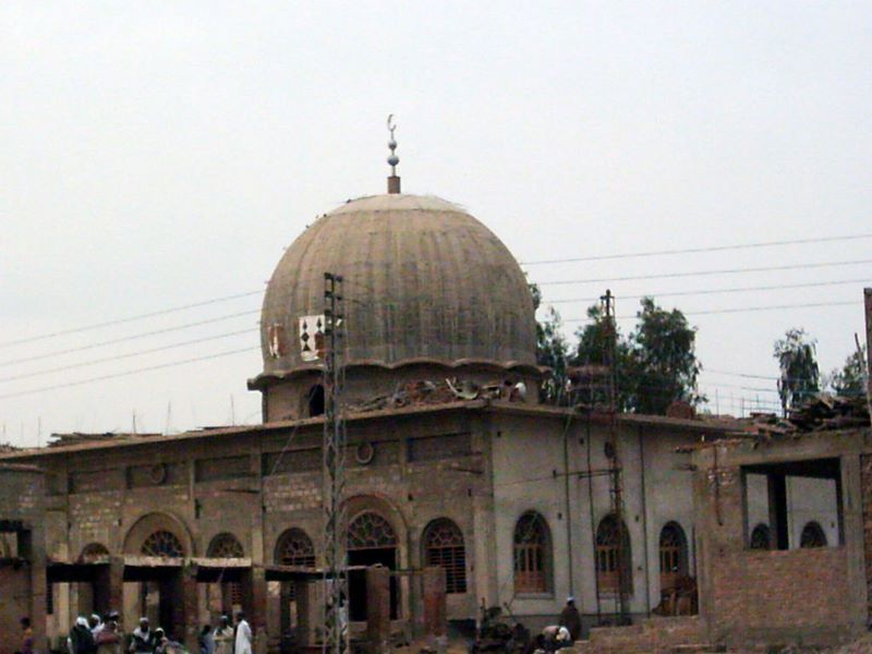 dargah Allahabad near Kandiaro in Sindh, Pakistan